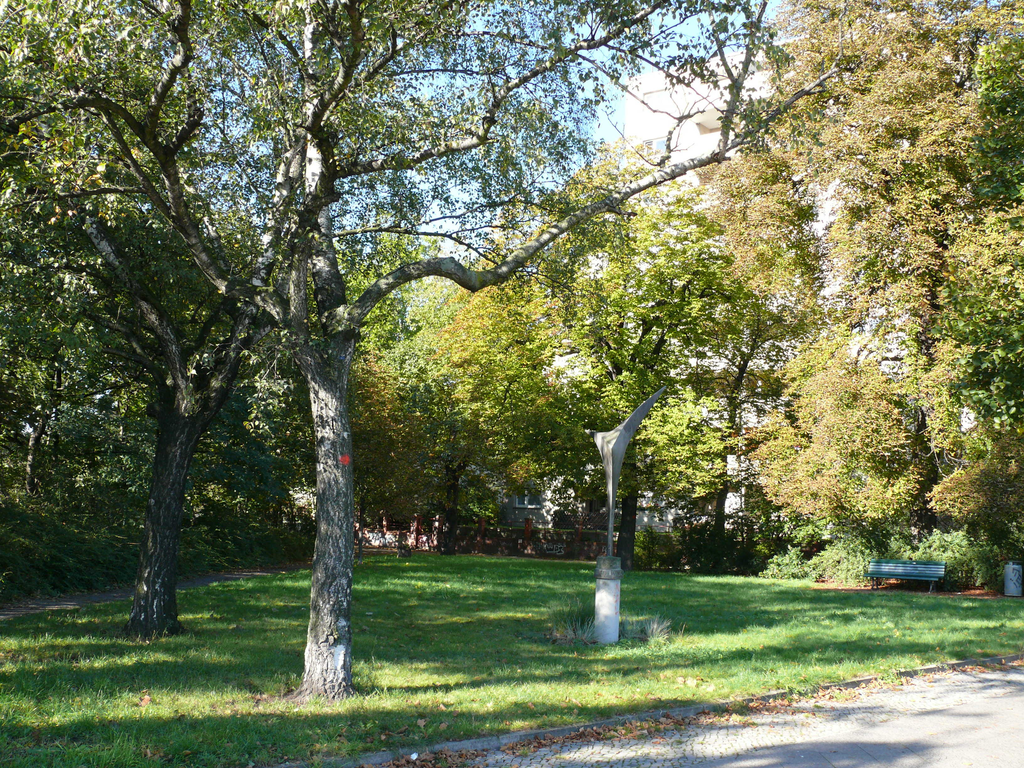 Berlin-Halensee Melli-Beese-Anlage